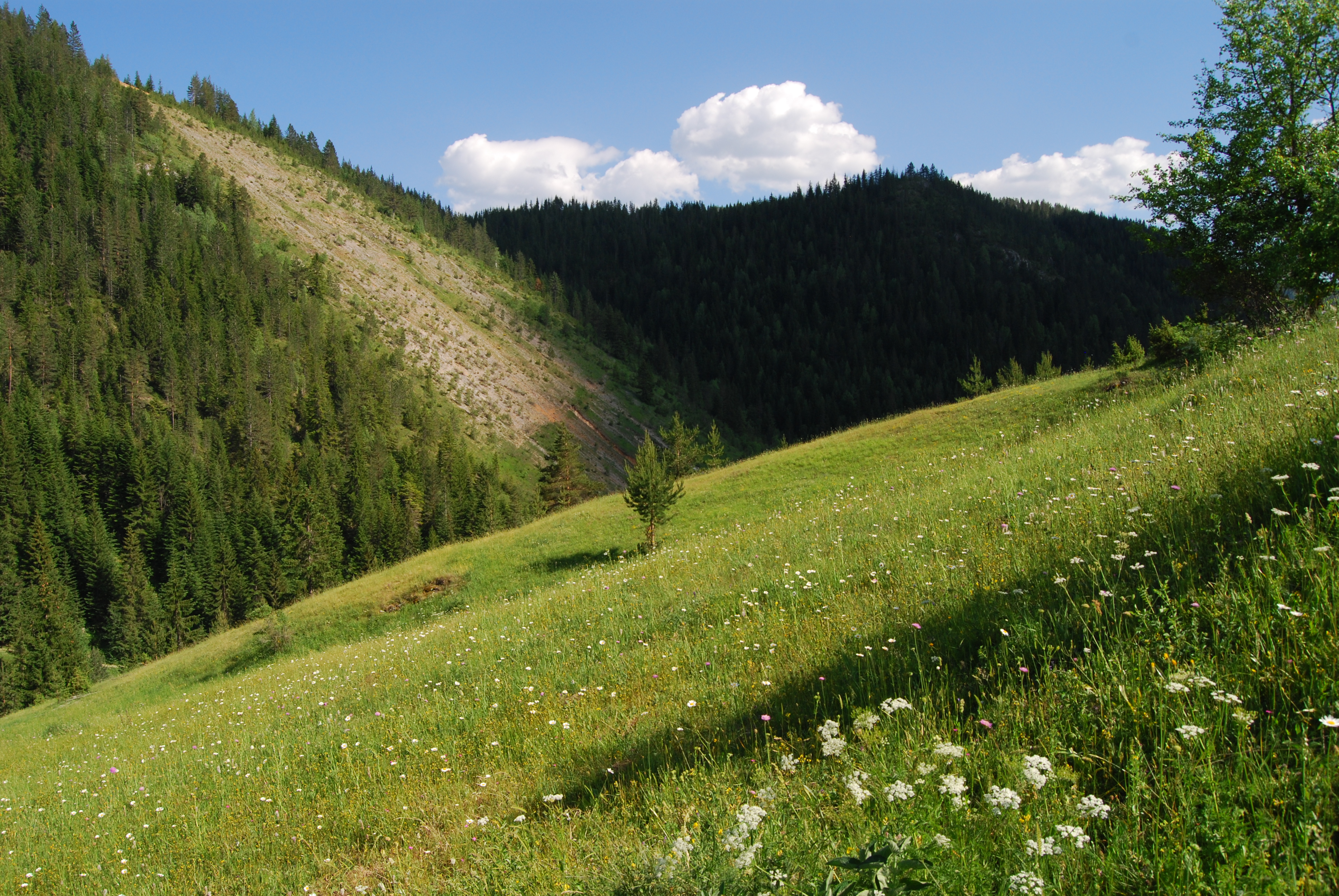 Photo taken in Rugova Alps during an summer trip in the village Boge